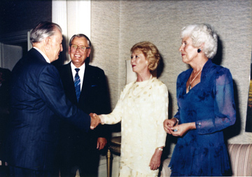 Henry Einarson Meets Icelandic President